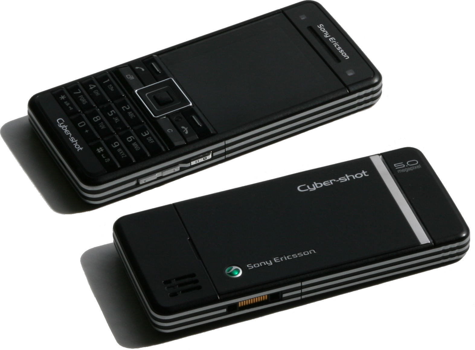 Front and back views of the Sony Ericsson C902 mobile phone, the color named Swift Black.